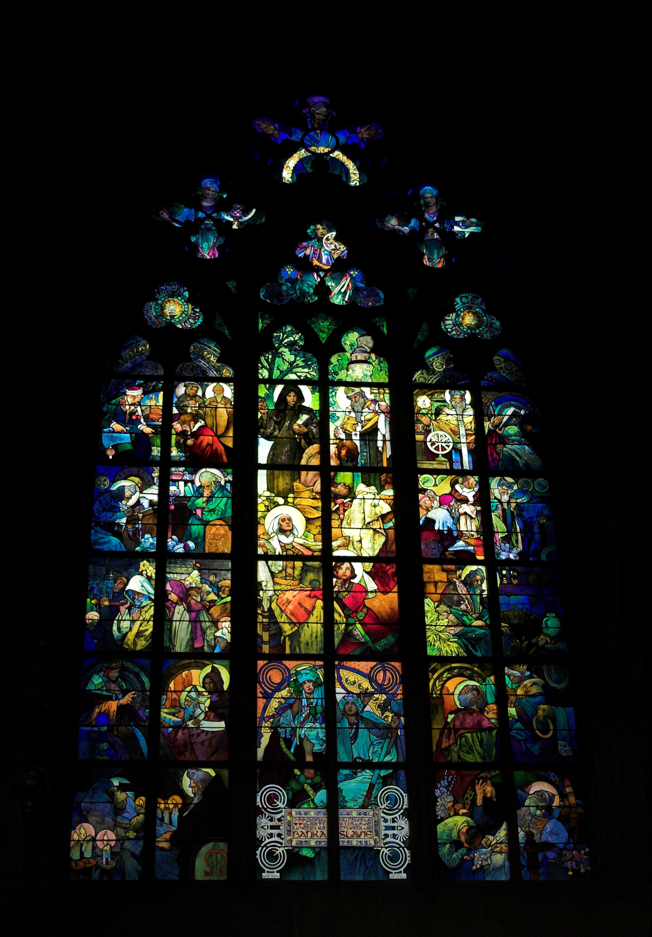 Alfons Mucha's window of St. Vitus Cathedral, Prague.